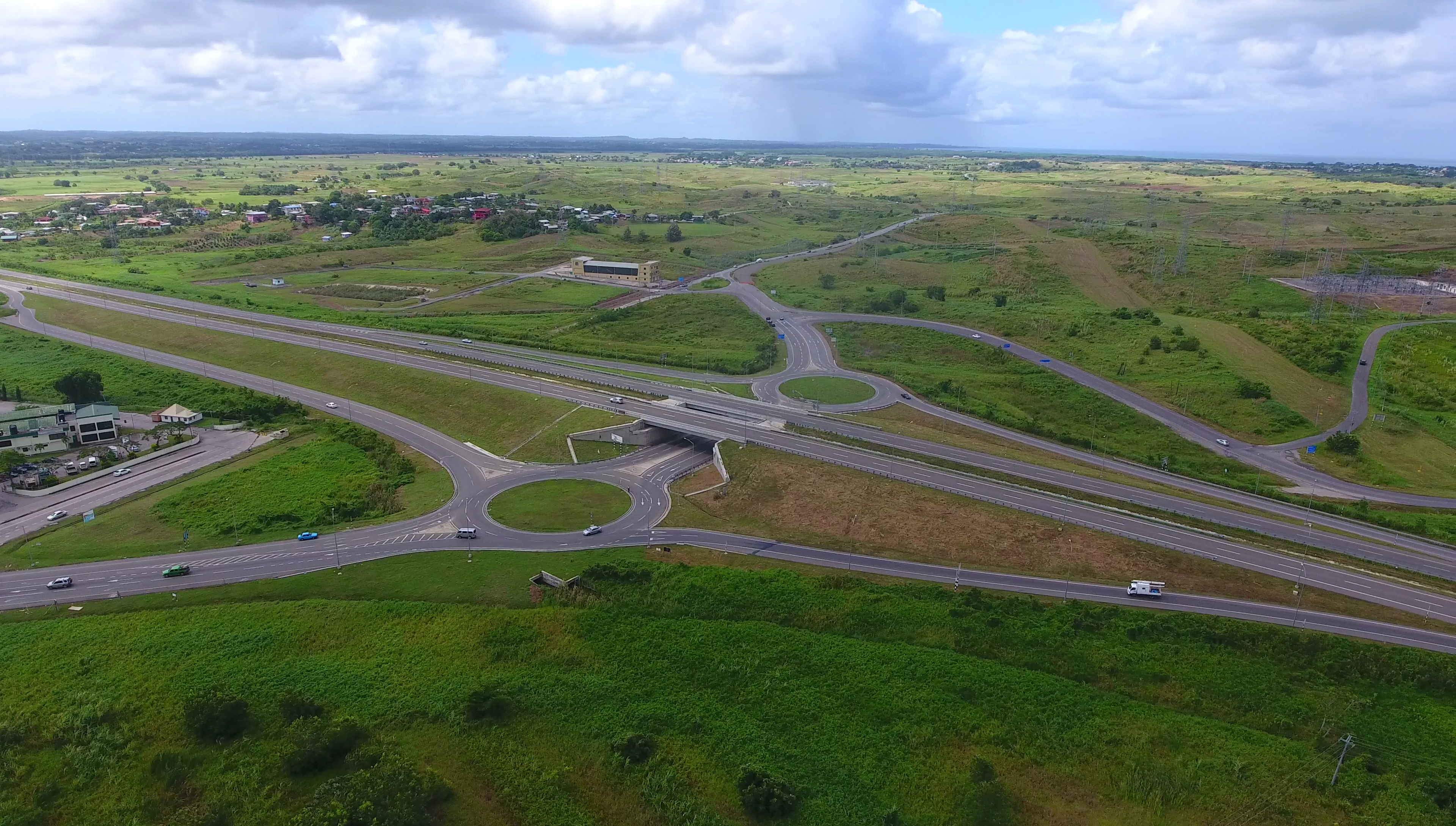 Sir Solomon Hochoy Highway, Debe, Penal-Debe, Trinidad and Tobago. Debe intersection, looking southwest. Debe is behind the left bottom. Photo taken as part of the Southern Trinidad Aerial Photo Project, a small project sponsored by WMDE. Drone used: DJI Phantom 4. Snapshot taken from video footage via VLC.